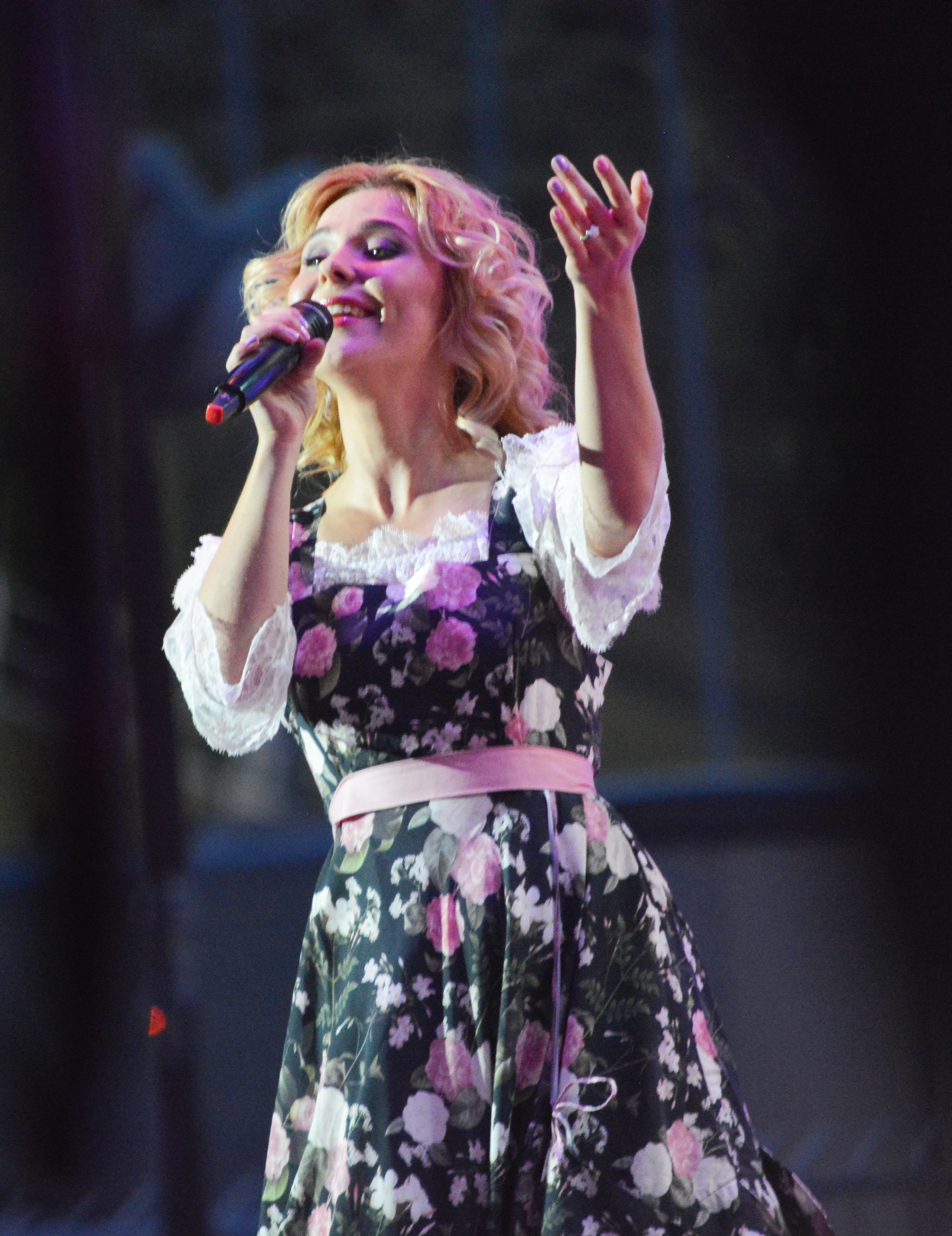 Pelageya live at opening of festival "Slavianski bazar in Viciebsk" 2014"